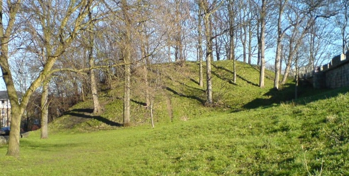 Baile Hill, York (3 February 2007).